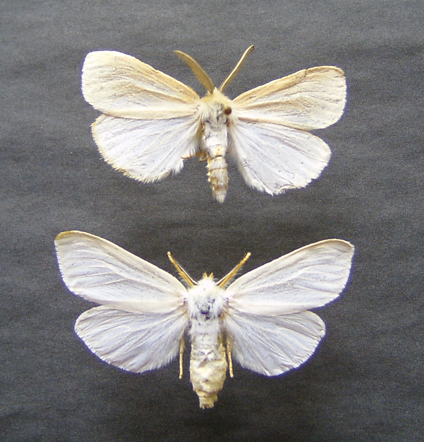 Laelia coenosa, male-female